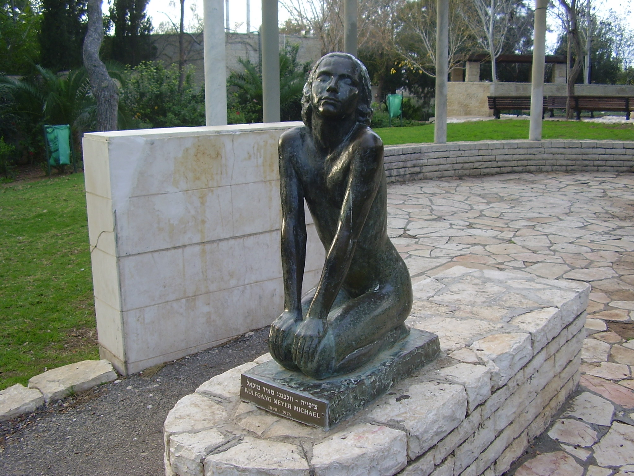 looking forward in \"mother garden\" in haifa